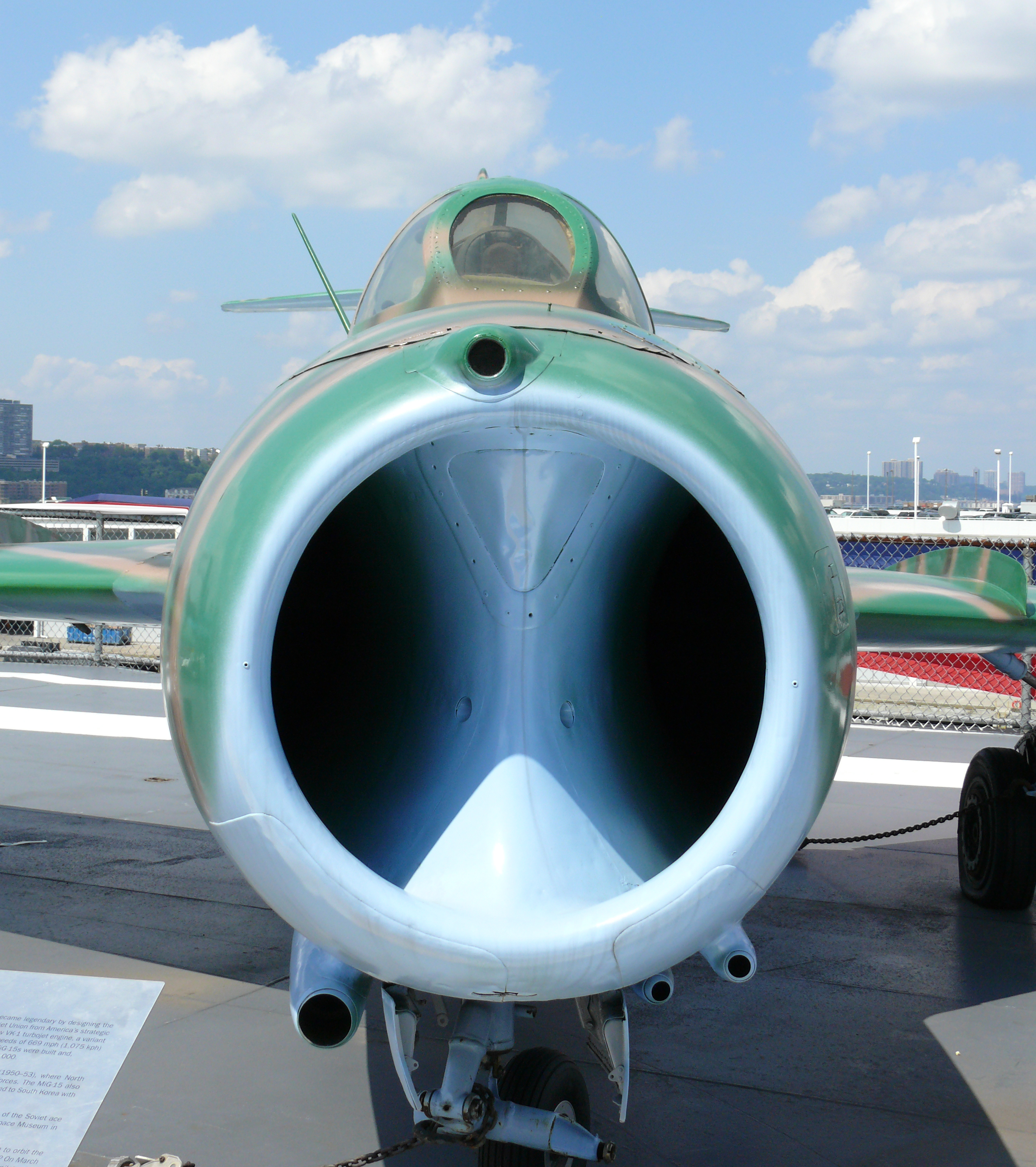 MiG-15 in the Intrepid Sea-Air-Space Museum. The MiG-15 was one of the first successful swept-wing jet fighters, and it achieved fame in the skies over Korea, where early in the war, it outclassed all straight-winged enemy fighters in daylight. This MiG-15 is Chinese built and painted in the colours of the Soviet aces participating in the Korean War.